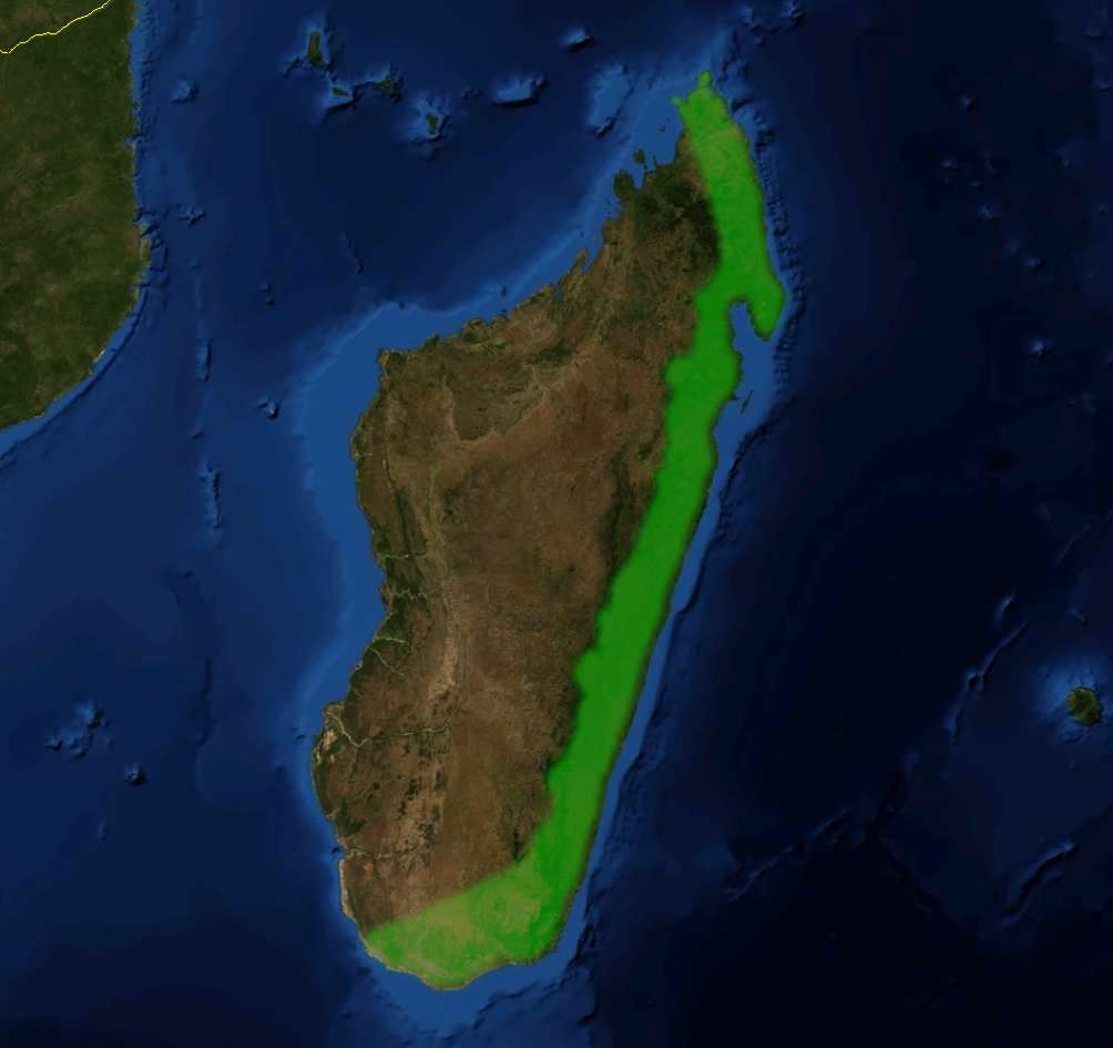 Distribution of Nepenthes madagascariensis.